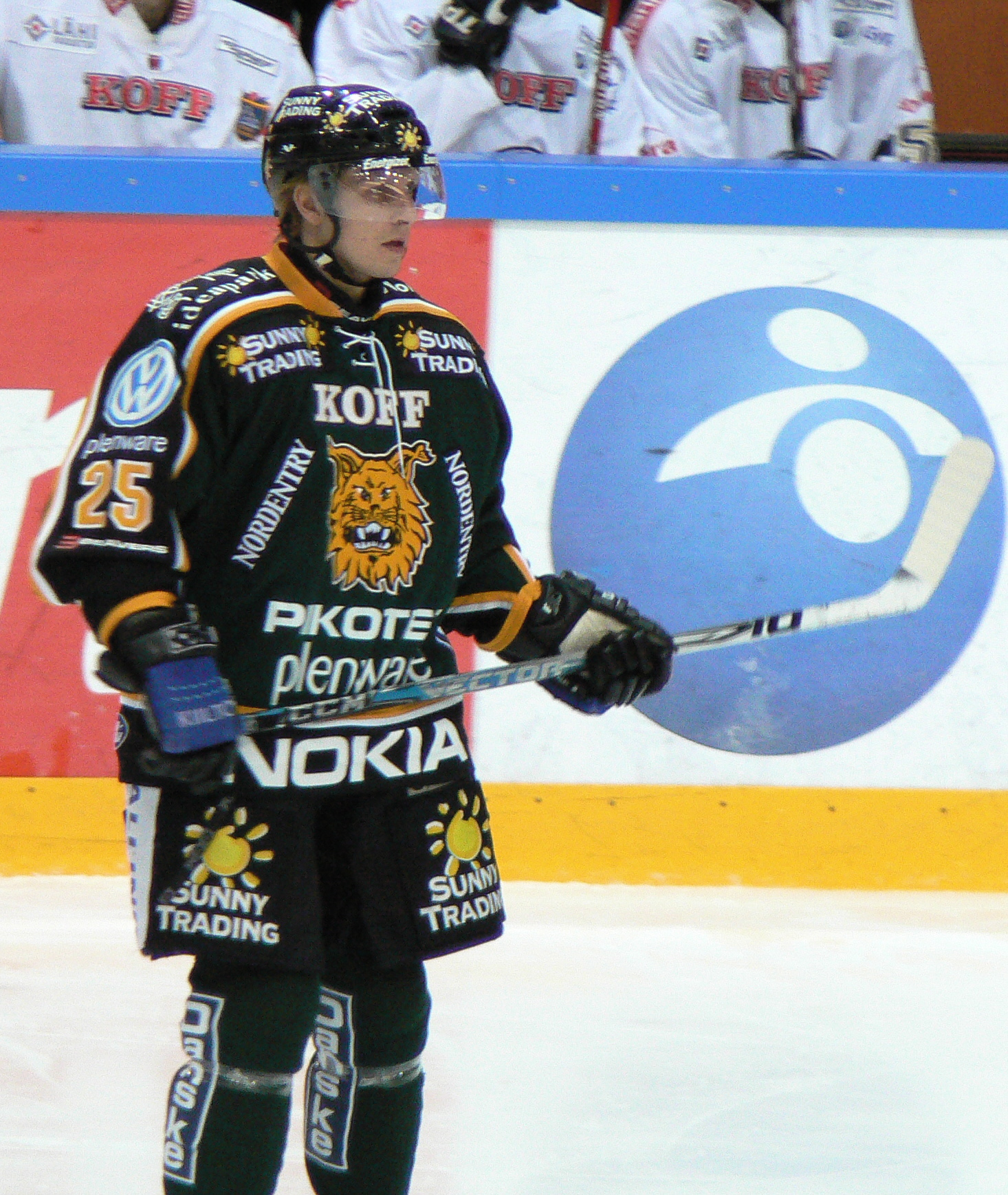 Finnish ice hockey defenseman Mika Niskanen playing for Ilves Tampere in January 2008.